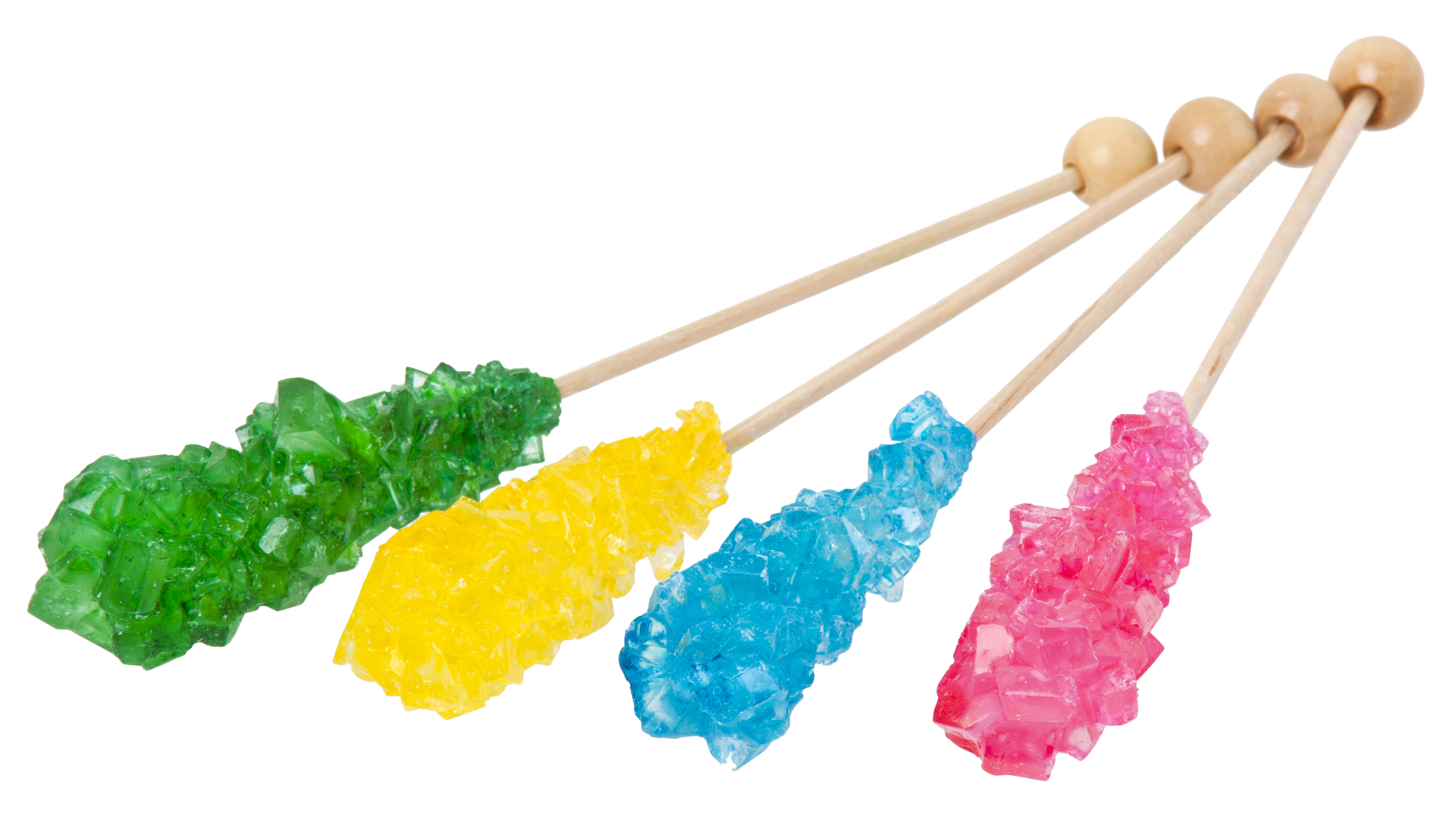 Various flavors of rock candy.